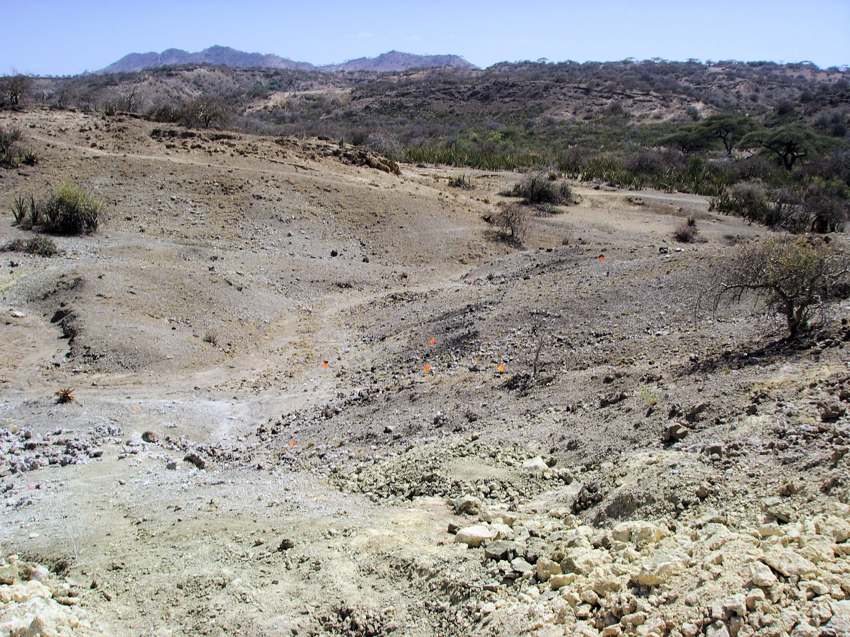 Olduvai Gorge, colored flags mark the sites of fossils